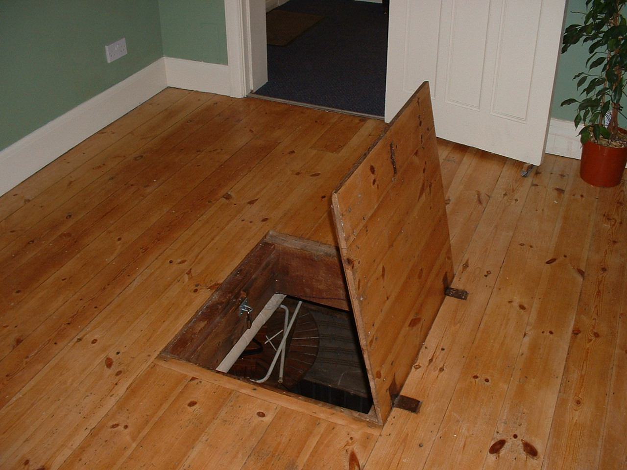 A trapddor leading to a bomb shelter from WW2 in 3 Clifton Rd N22 7XN London